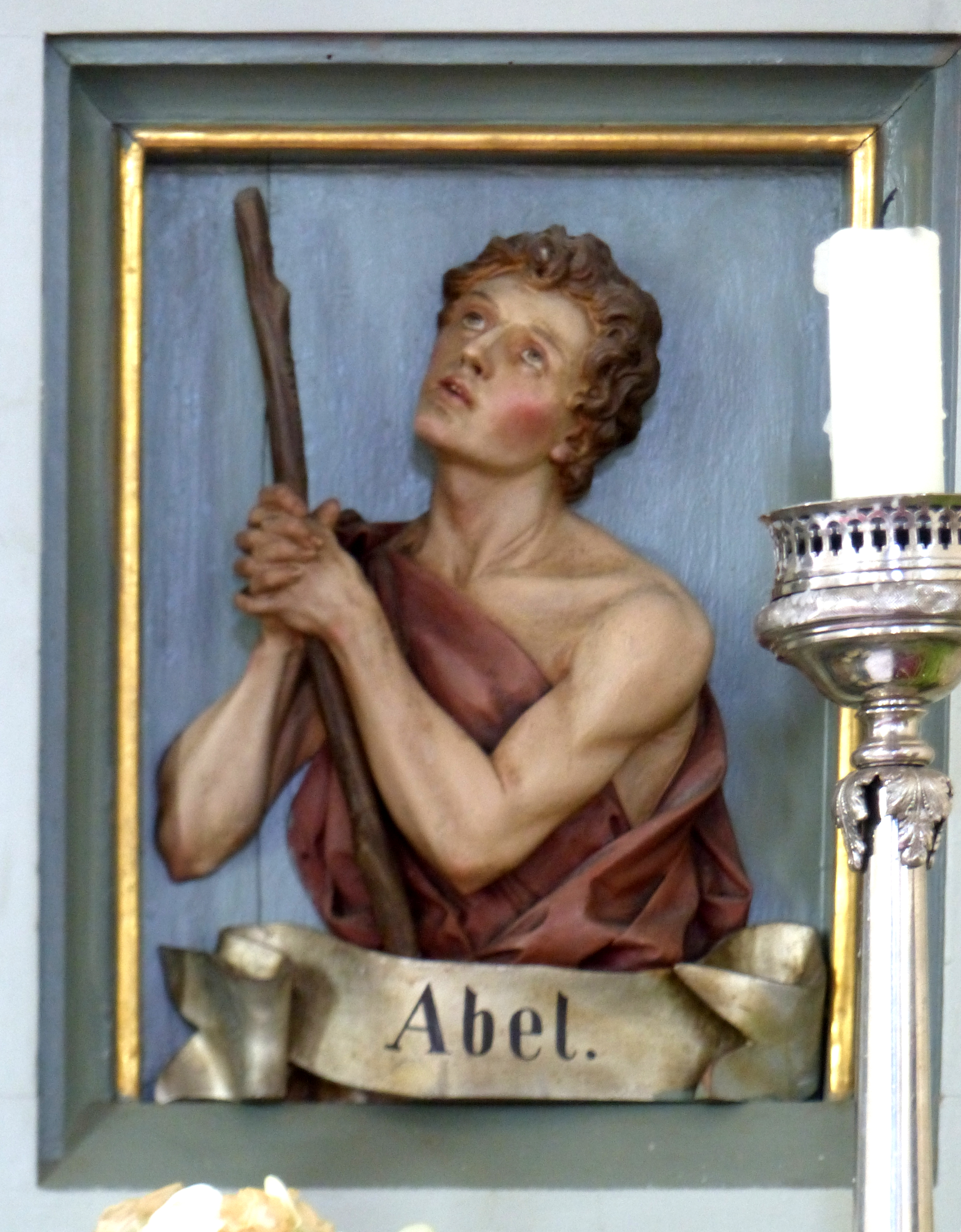 Gastern ( Lower Austria ). Saint Martin parish church - Romanesque Revival high altar ( 1906 ) - Abel ( Predella )